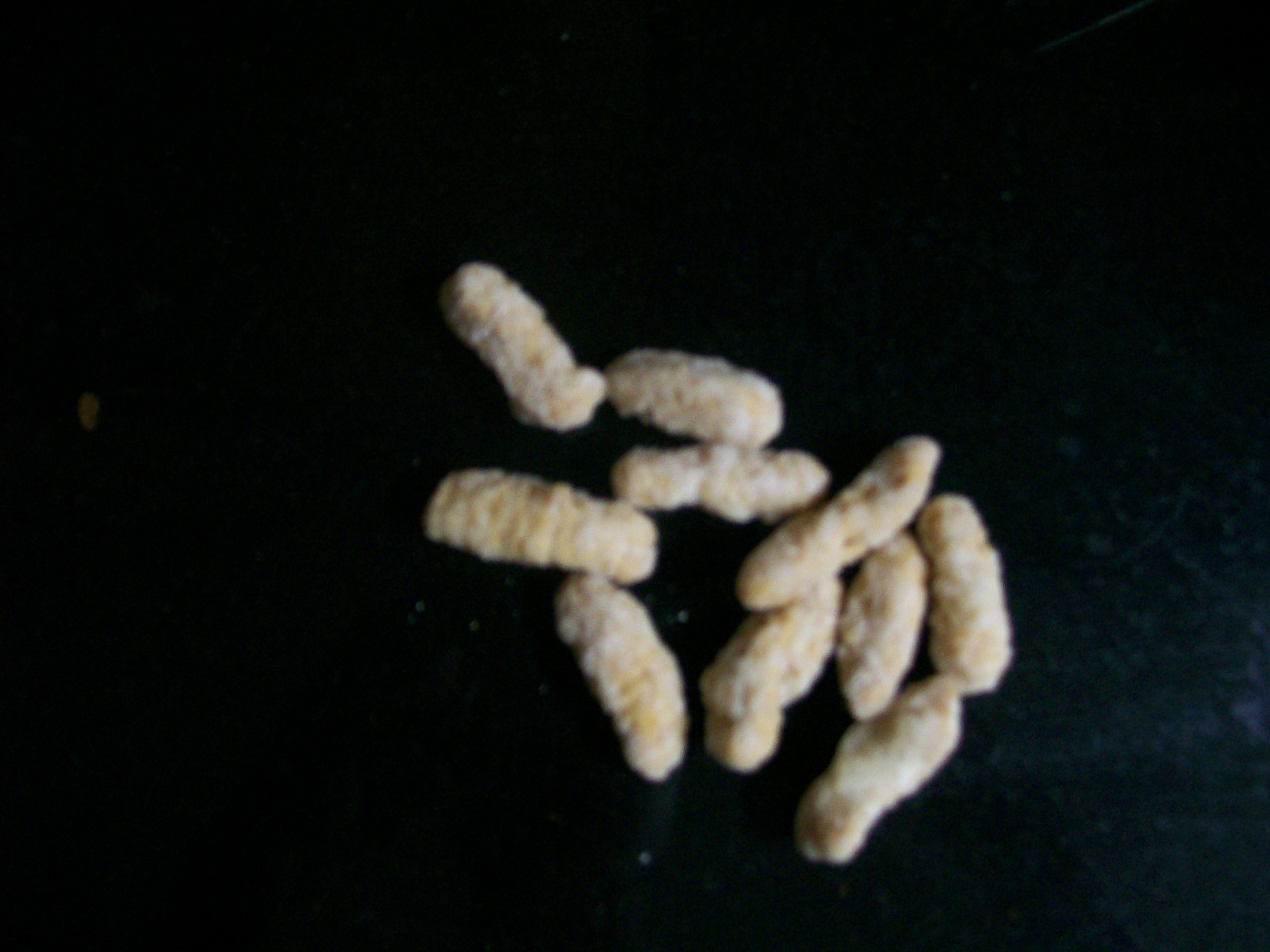 A typical Kidyo, a sweet delicacy popular among the Goan and Mangalorean Catholic community in Bombay.